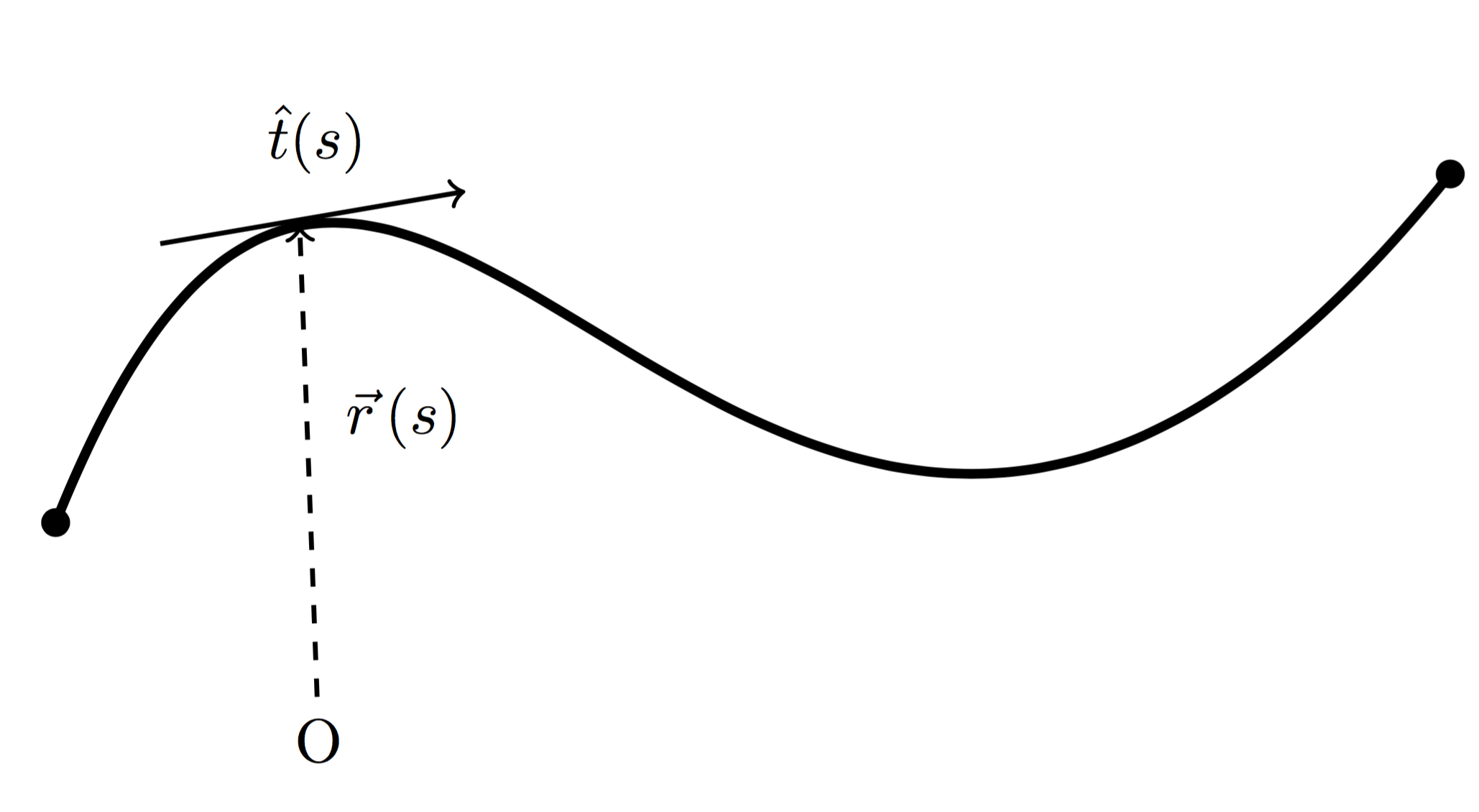 Diagram of the wormlike chain model, an approximation of a flexible polymer.